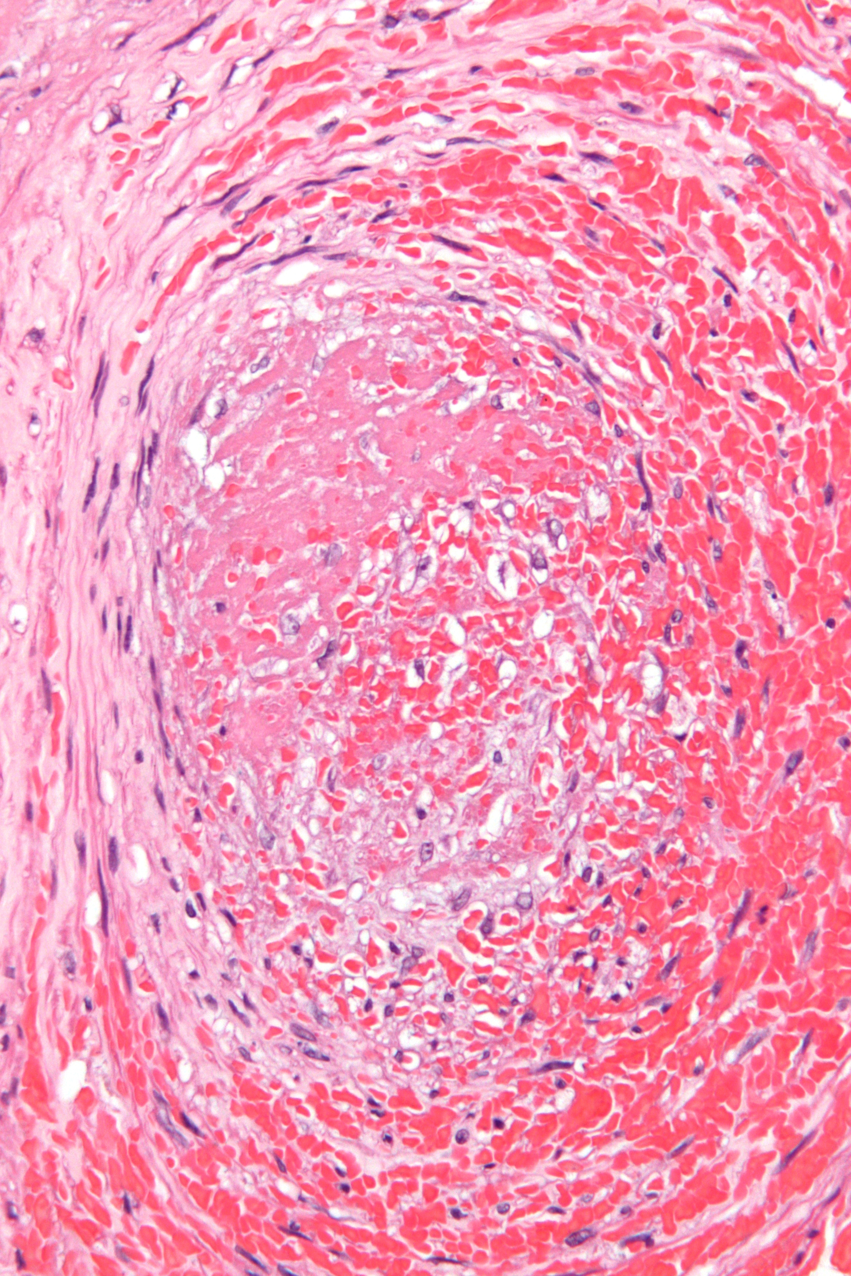 Very high magnification micrograph of fetal thrombotic vasculopathy. H&E stain. Histopathologically, it is characterized by:[1] Clustered fibrotic chorionic villi without blood vessels. Thrombi in fetal vessels. Clinically, it is associated with cerebral palsy, and stillbirth. Related images Low mag. Intermed. mag. High mag. Very high mag. References ↑ (Jul 1999). "Fetal thrombotic vasculopathy in the placenta: cerebral thrombi and infarcts, coagulopathies, and cerebral palsy.". Hum Pathol 30 (7): 759-69.